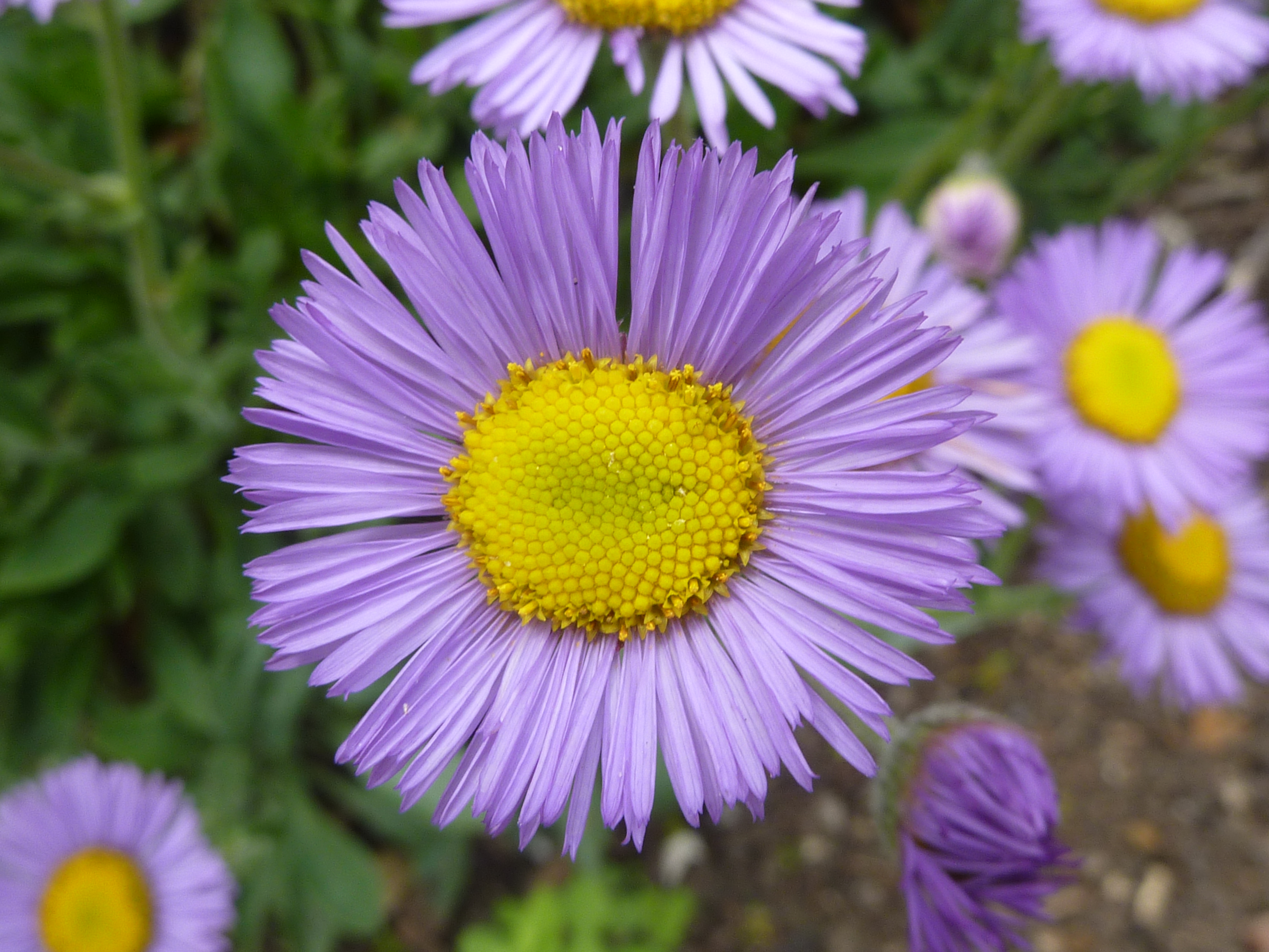 Taken in the Cambridge University Botanic Garden